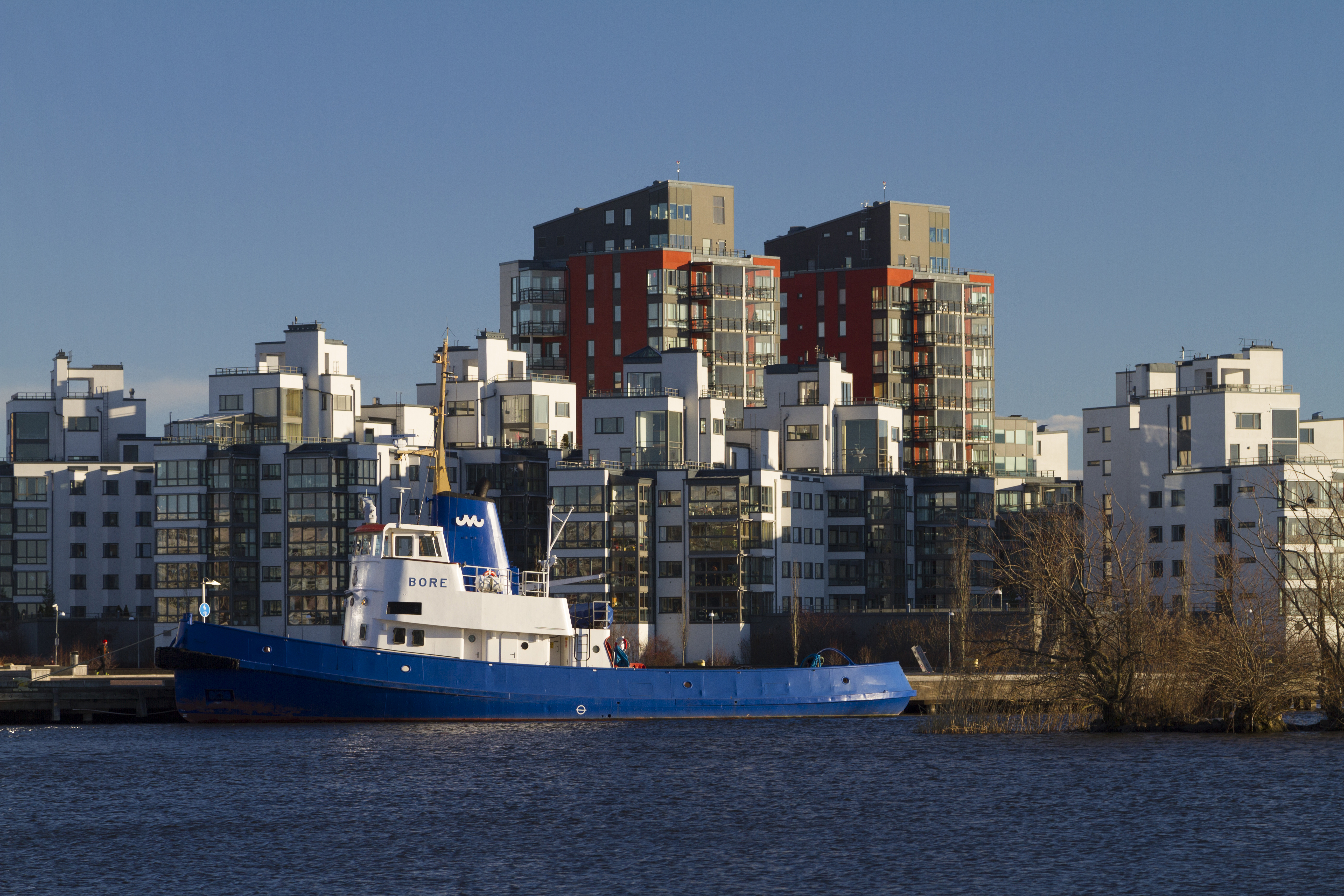 Residential area Lillåudden in Västerås City Sweden